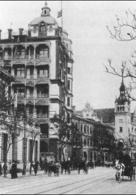 Shanghai Palace Hotel when it was just built